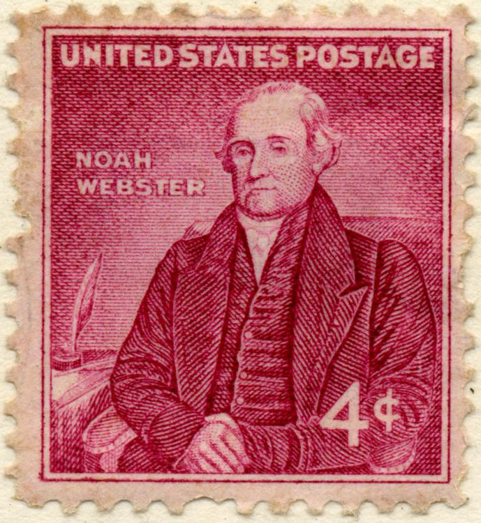 Image of the Noah Webster postage stamp, 4 cents. Courtesy of the Yale University Manuscripts & Archives Digital Images Database. Original work of the United States federal government.